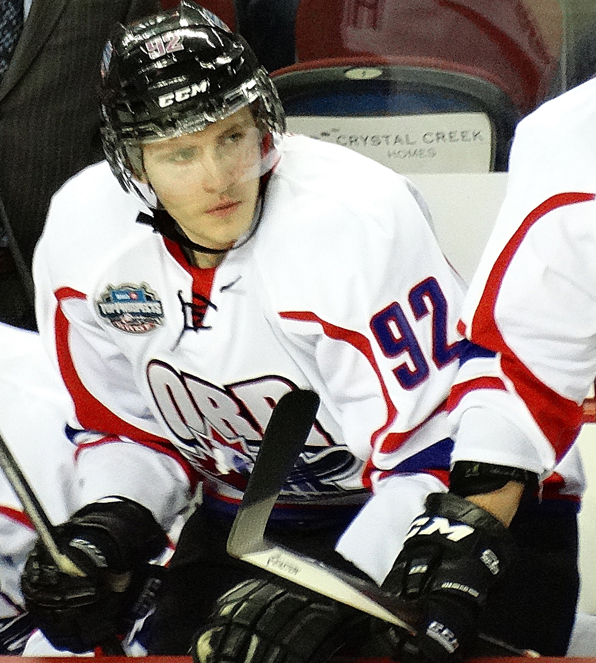 Leon Draisaitl of the Prince Albert Raiders (WHL) played a solid game for Team Orr. The CHL Top Prospects game at Scotiabank Saddledome on January 15, 2014 in Calgary, Alberta, Canada. Team Orr defeated Team Cherry 4-3.